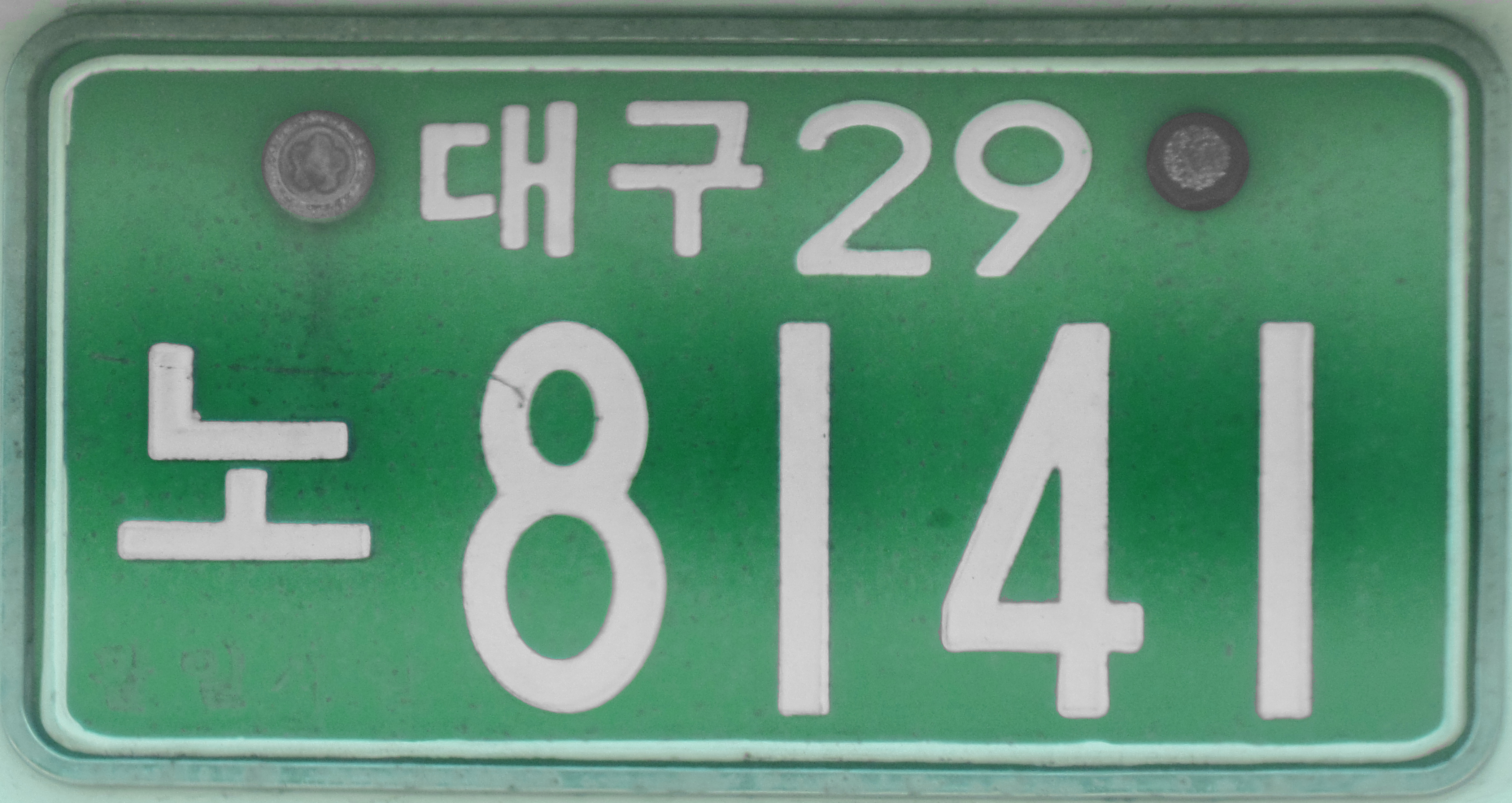 Republic of Korea Construction Equipment Registration Plate for Private Passenger Car(1996~2003): Daegu Metropolitan City